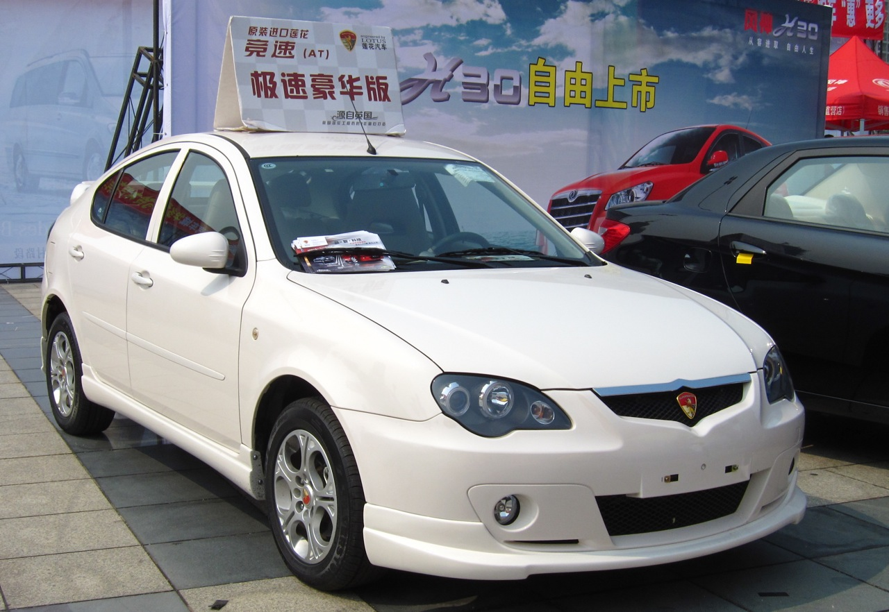 EuropeStar automobile (with Lotus badging for the Chinese market), by Proton